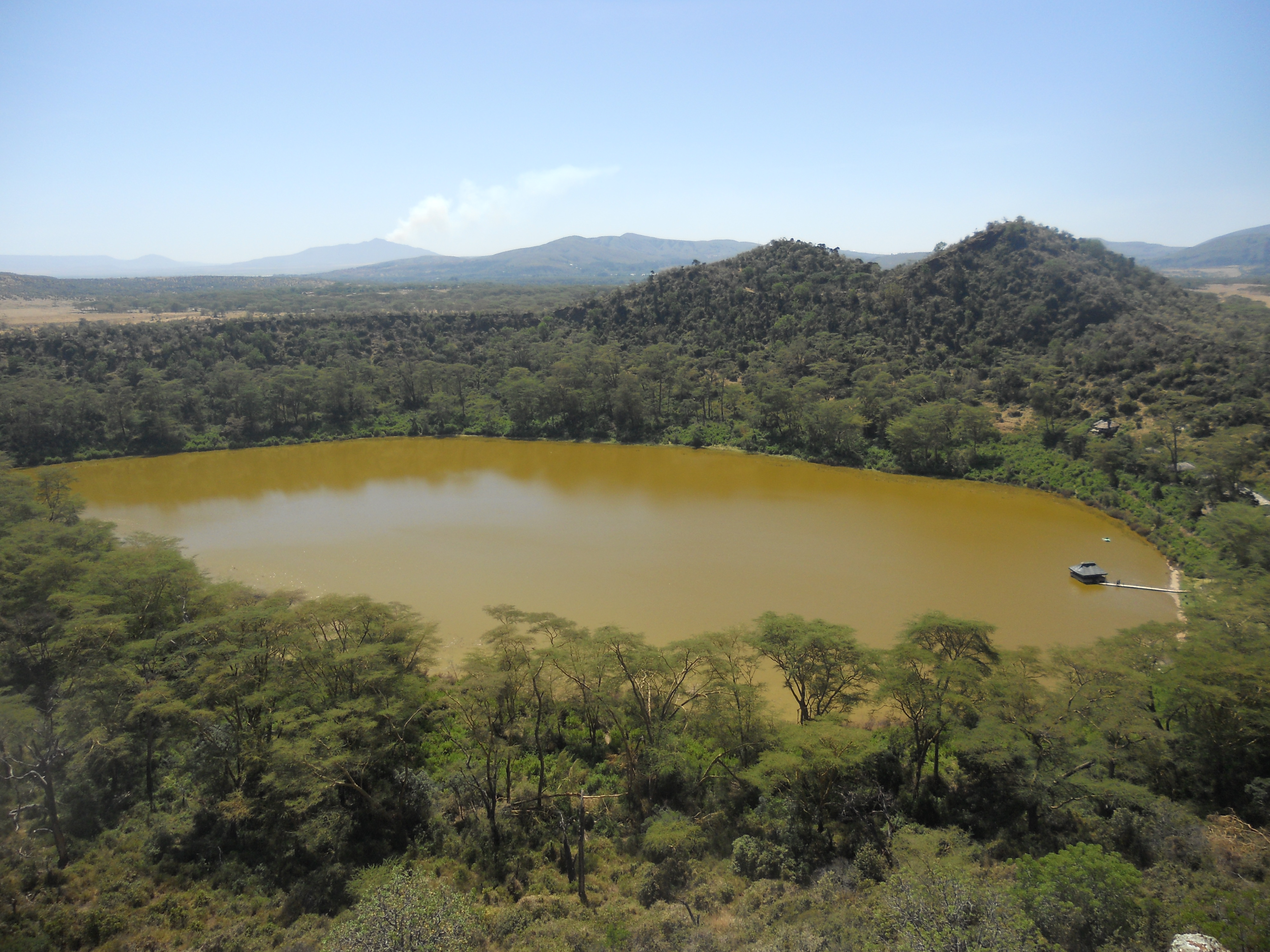 Crater Lake near Lake Naivasha, Rift Valley Province, Kenya